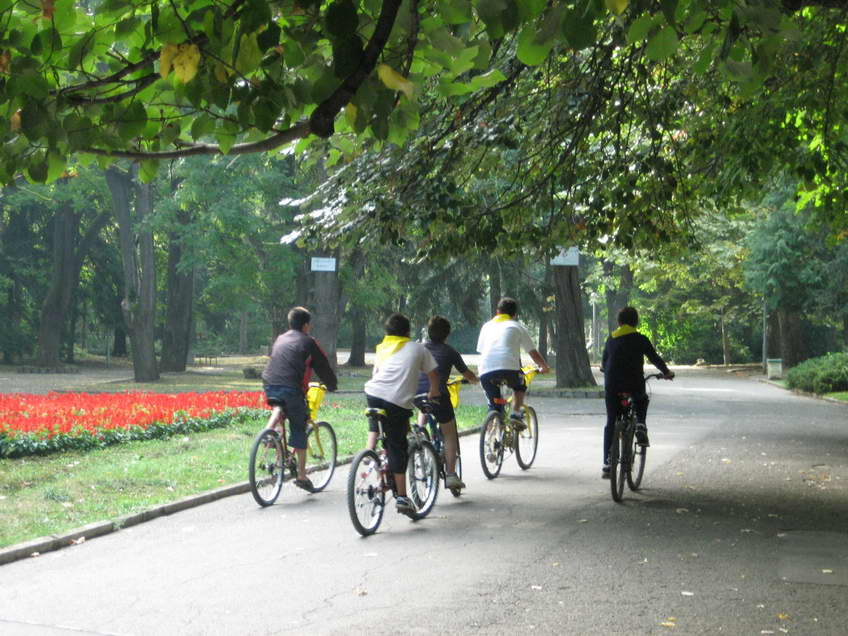 One of the main alleys in the city garden of Popovo 2007.